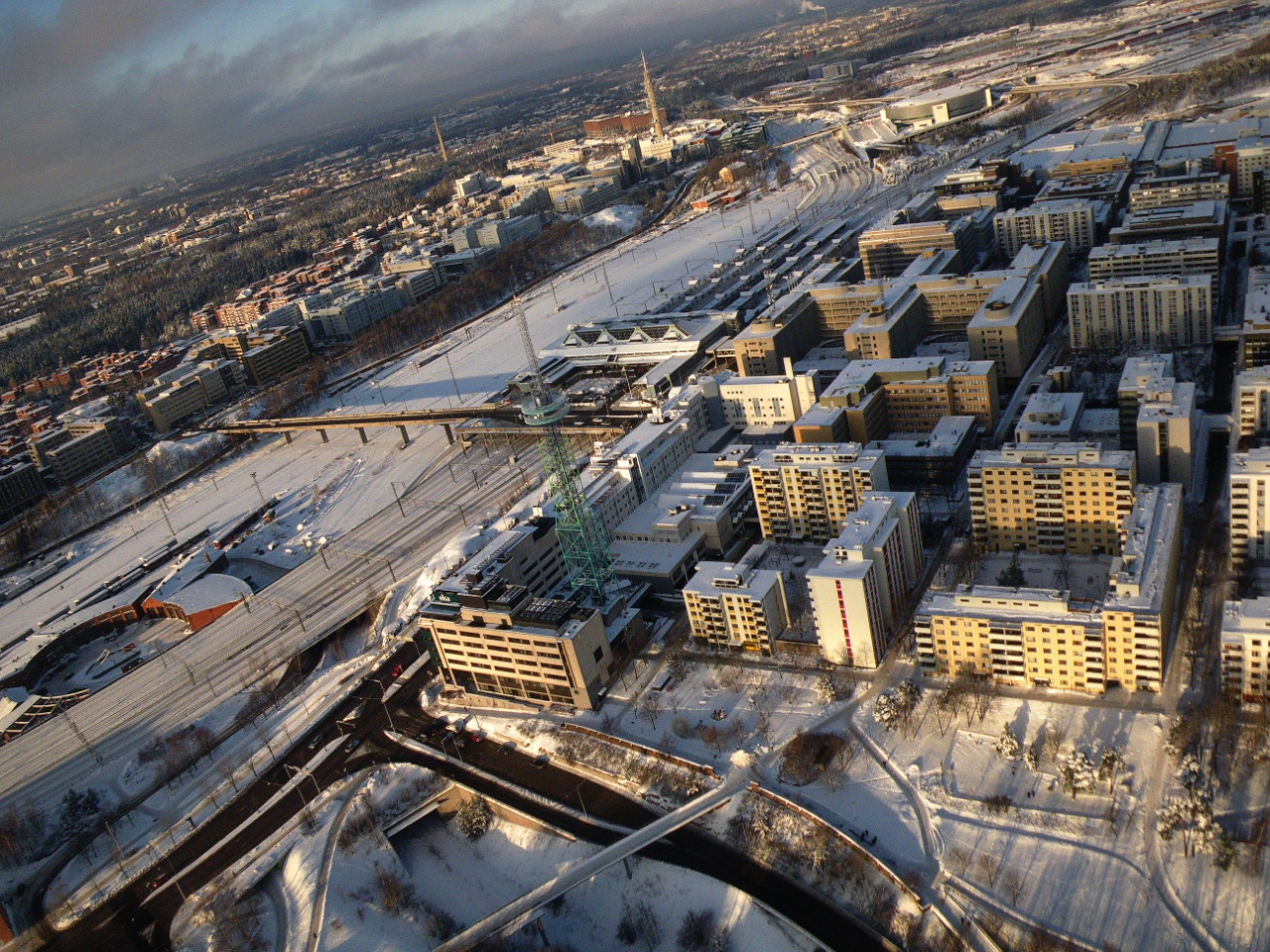 Pasila, Helsinki from air